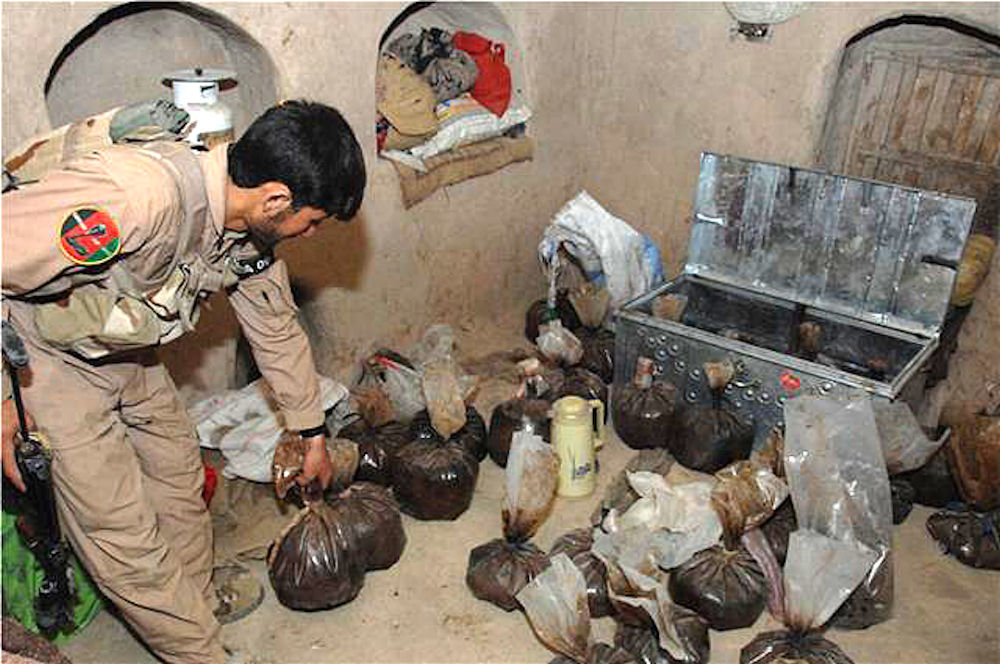 HELMAND PROVINCE, Afghanistan (May 8, 2009) - An Afghan National Police officer picks up a bag of opium. Afghan National Police officers, along with U.S. Special Operations Soldiers, discovered 600 pounds of opium May 7, 2009, during a cordon and search operation of a known Taliban safe house, collection center and trauma center in Babaji Village, in Afghanistan's Helmand province. Photo by Cpl. Sean K. Harp, U.S. Army.